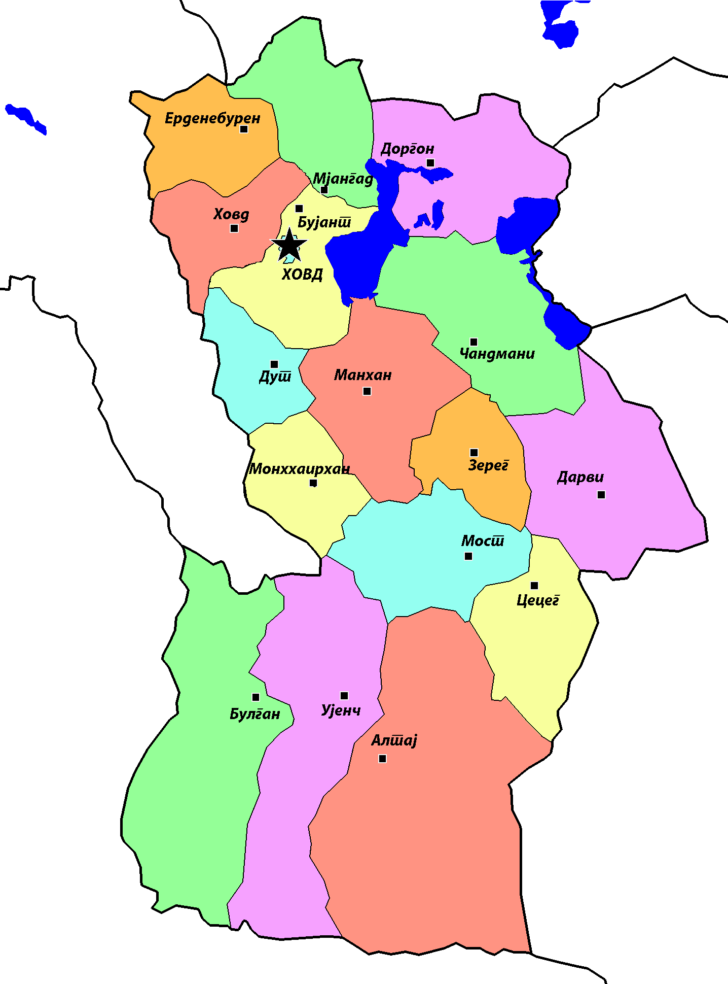 Translated map of Khovd Sum into Macedonian language